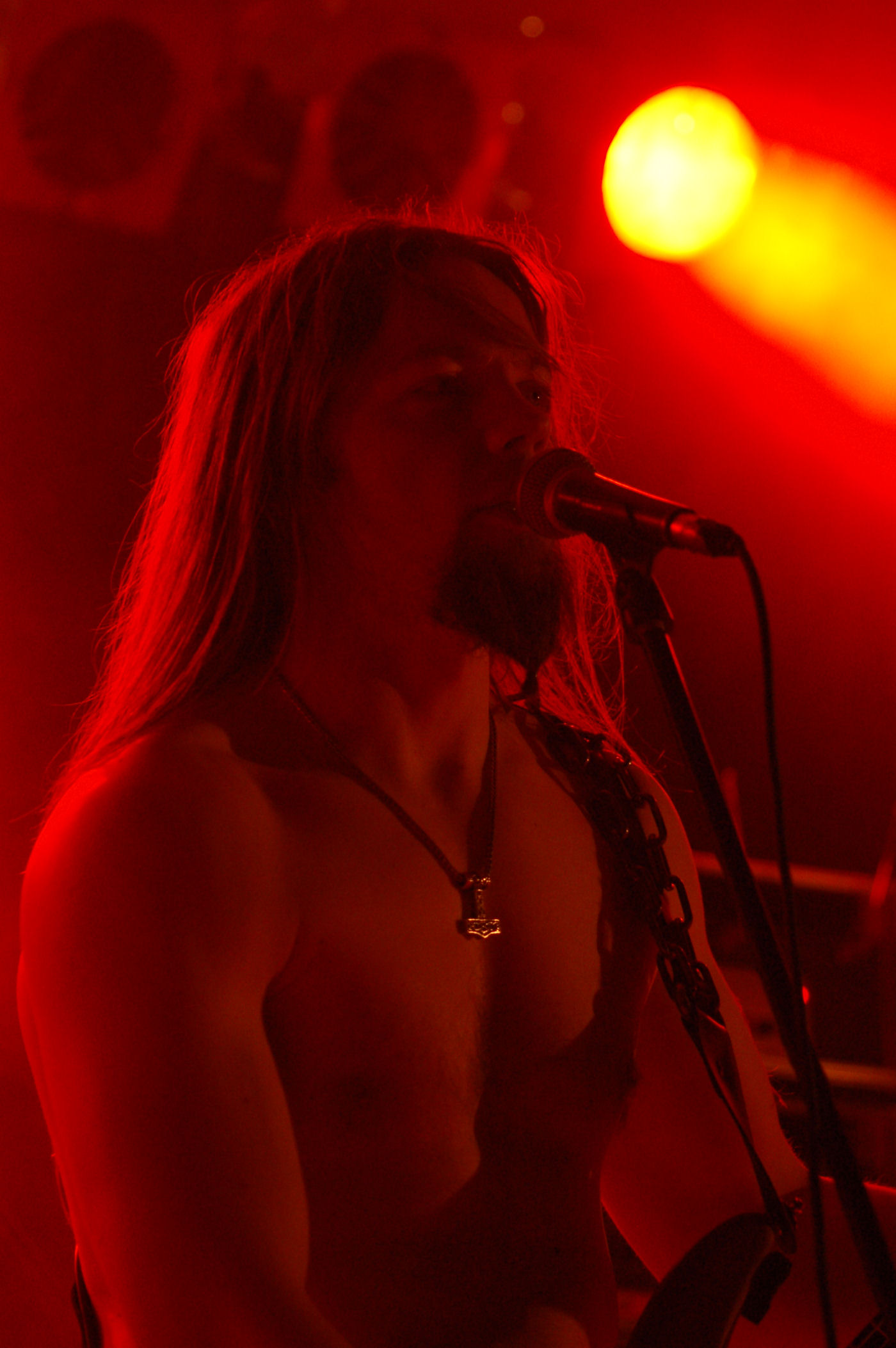 Heri Joensen from Týr (band) during Metalmania 2007 festival